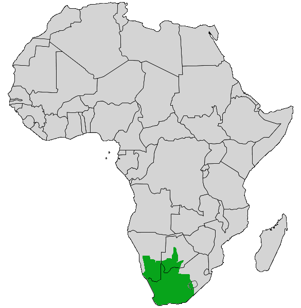 Distribution of the Cape cobra (Naja nivea).